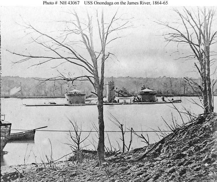 Originally a Stereograph card. The USS Onondaga on the James River.